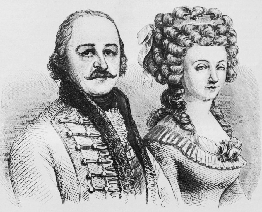 Miklós Wesselényi Sr. and his wife Heléna Cserey (their son is Miklós Wesselényi)